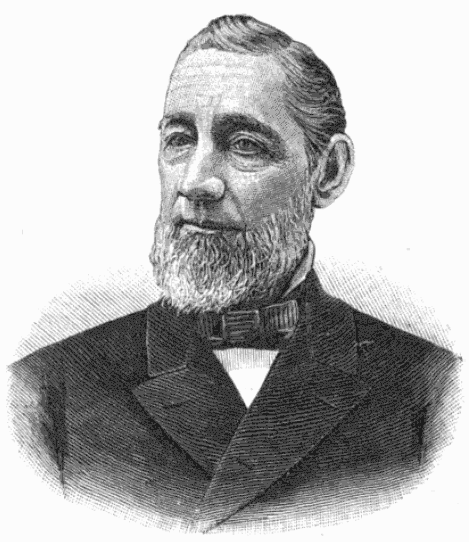 John Henry Kinkead(1826-12-10–1904-08-15), American politician who was the third Governor of Nevada (1879 to 1883) and the first Governor of the District of Alaska (1884 to 1885).